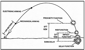 The M734 Fuze is shown to arm in flight at a safe distance from the gun crew and be set before firing to any of four different heights of burst.